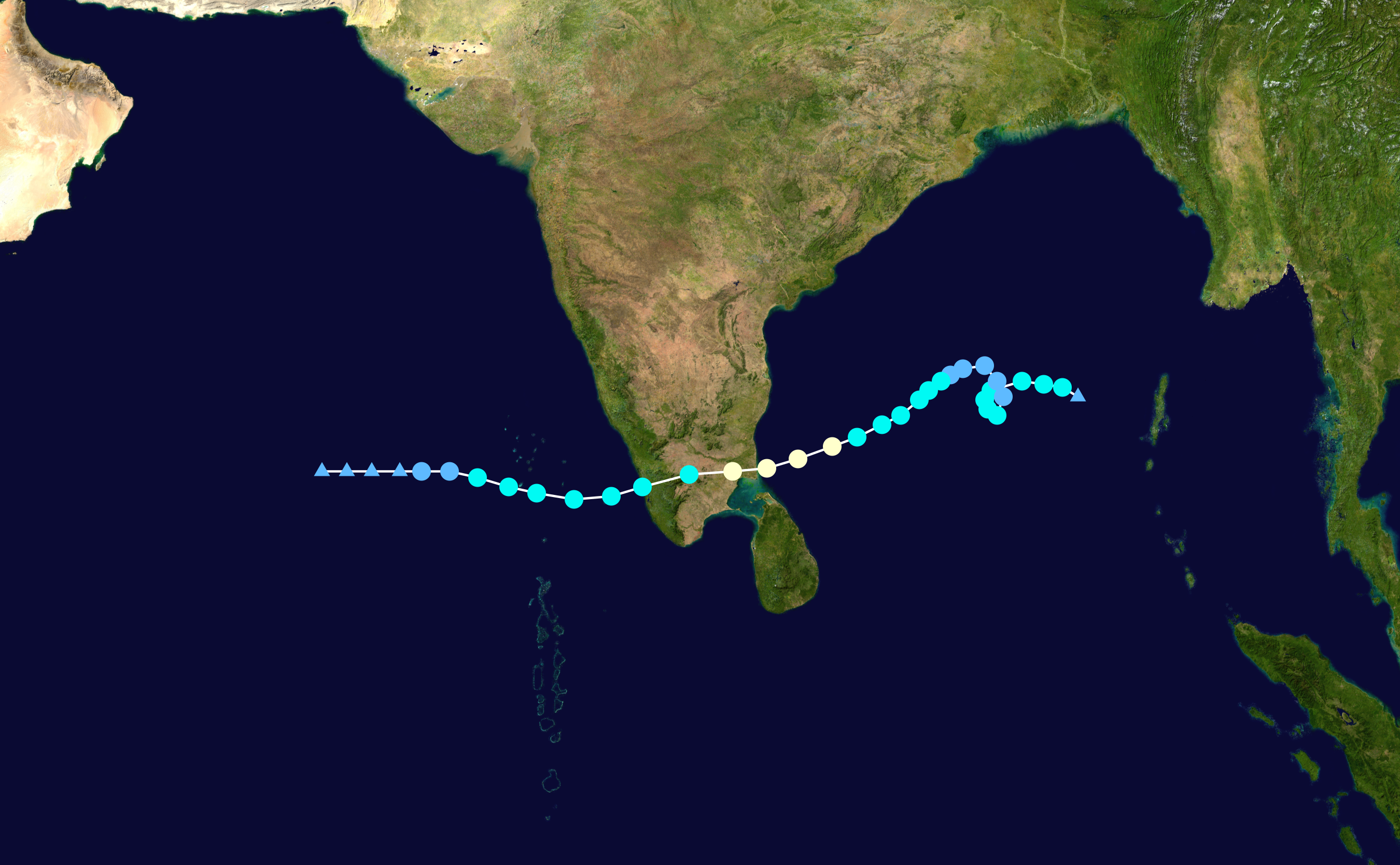 Track map of Severe Cyclonic Storm Gaja of the 2018 North Indian Ocean cyclone season. The points show the location of the storm at 6-hour intervals. The colour represents the storm's maximum sustained wind speeds as classified in the Saffir–Simpson scale (see below), and the shape of the data points represent the nature of the storm, according to the legend below. Saffir–Simpson scale Tropical depression≤38 mph≤62 km/h Category 3111–129 mph178–208 km/h Tropical storm39–73 mph63–118 km/h Category 4130–156 mph209–251 km/h Category 174–95 mph119–153 km/h Category 5≥157 mph≥252 km/h Category 296–110 mph154–177 km/h Unknown Storm type Tropical cyclone Subtropical cyclone Extratropical cyclone / Remnant low / Tropical disturbance / Monsoon depression